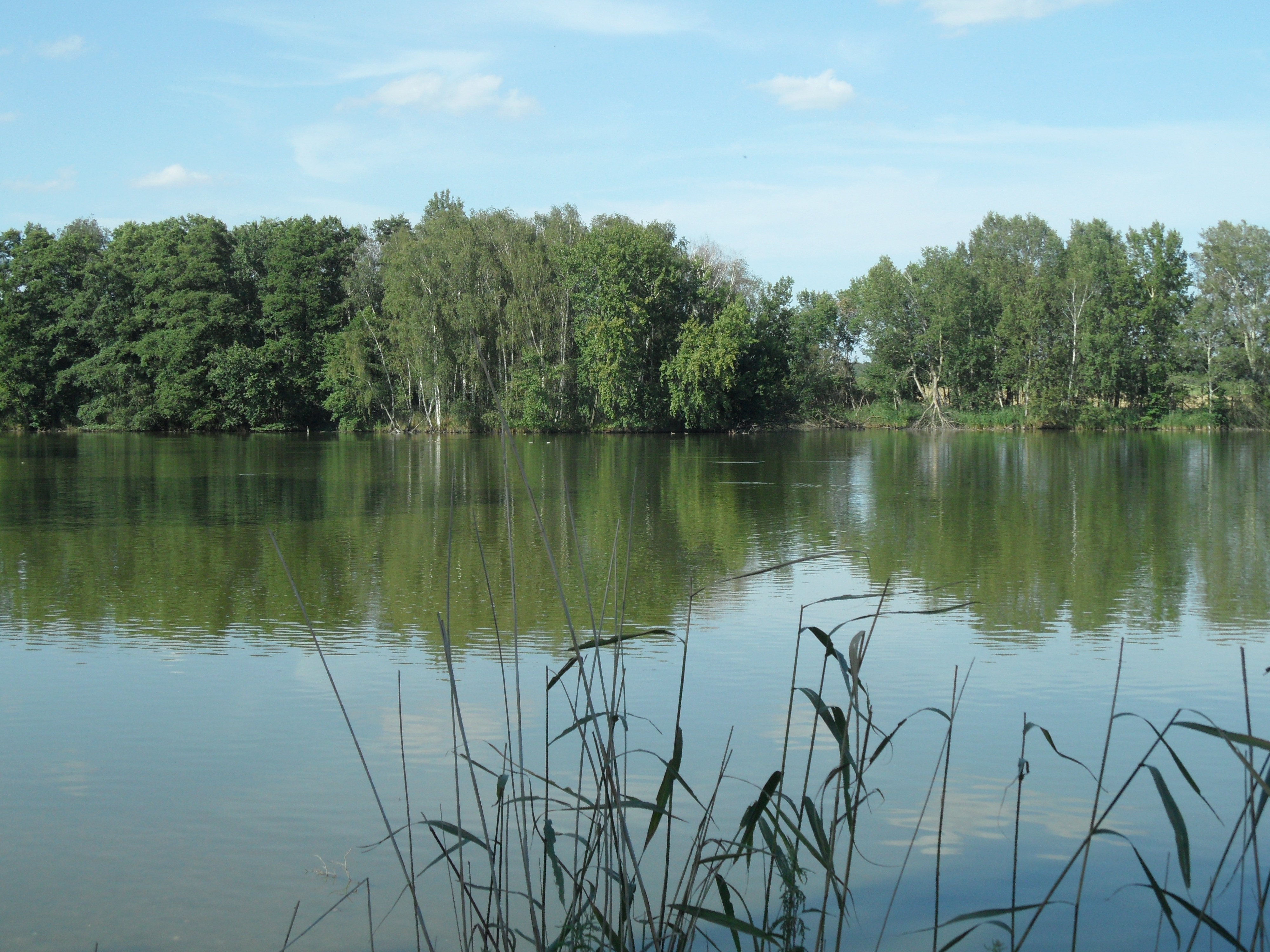 Bohumilečský Pond (village Bohumileč), Overview from South-West. Pardubice District, the Czech Republic.